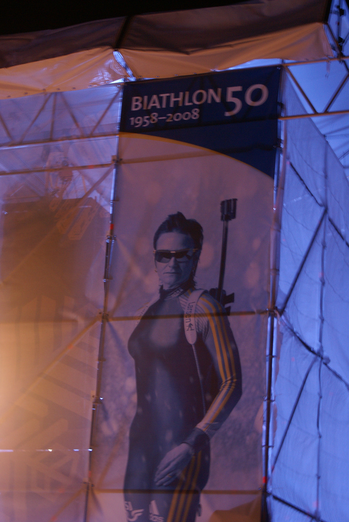 Matrixed styled Anna-Carin Olofsson, 2008 Biathlon World Championships